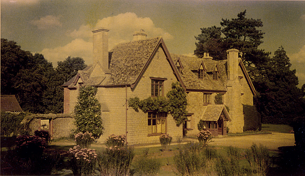 Formerly located at the top of Manor Lane, this house dated from the 30th year of Elizabeth 1's reign (1588). At the time of this photo, the owner was Major Edward Eyre-Williams.